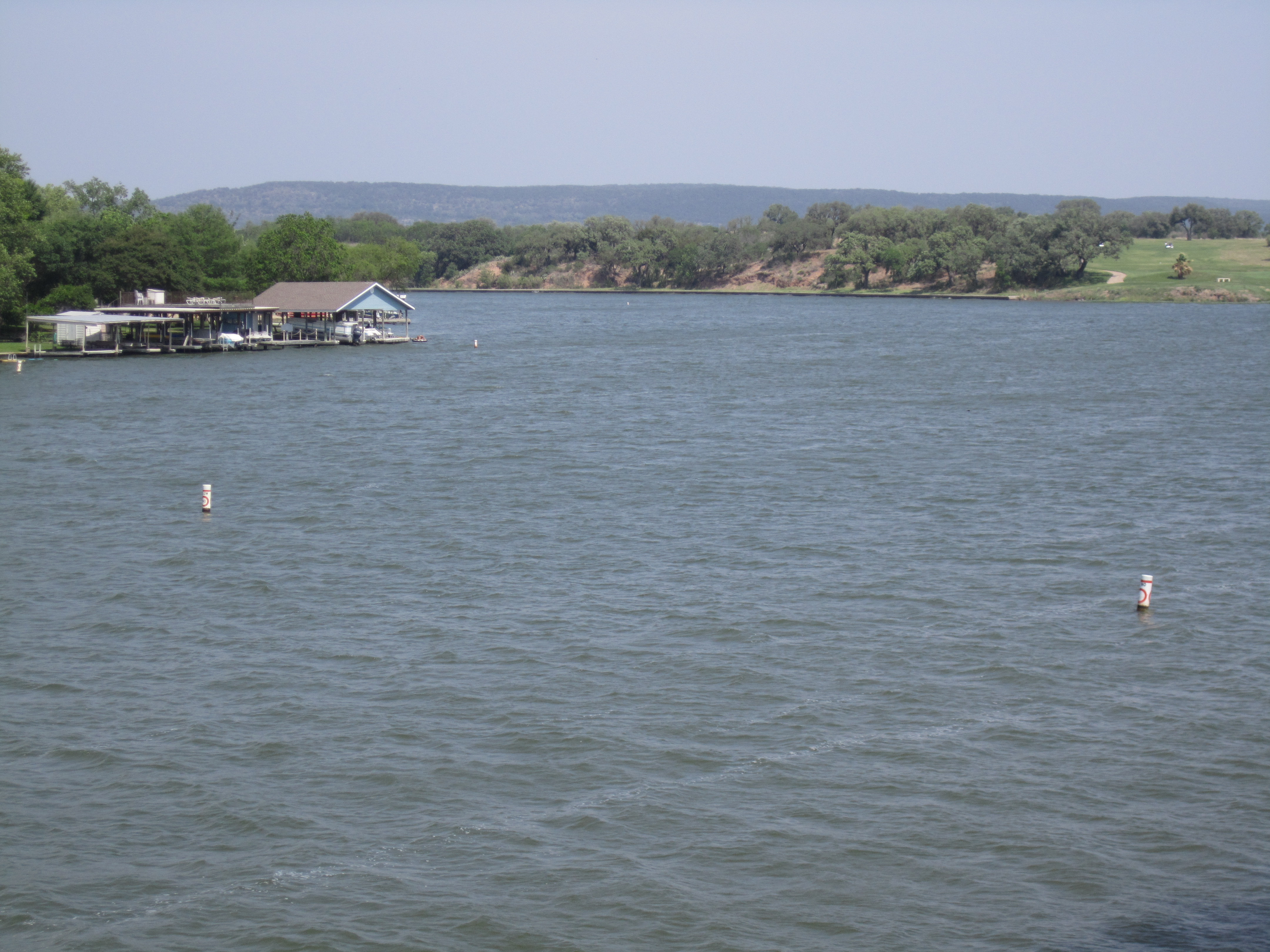 I took photo in Kingsland, TX, with Canon camera.